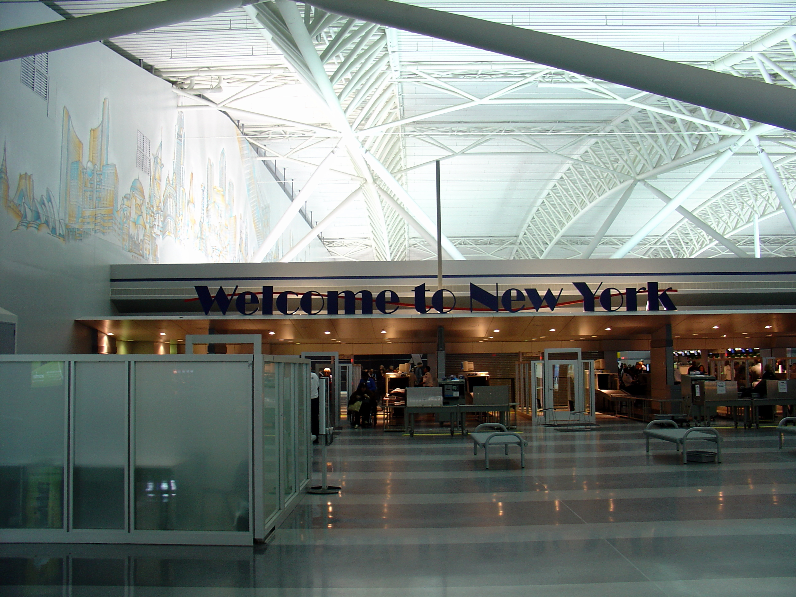 Please, have this description accessible to all by translating it in different languages.